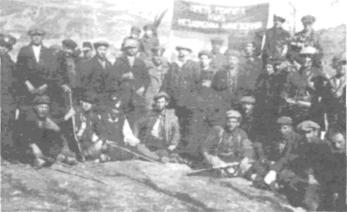 Cheta of Iliya Lerinski